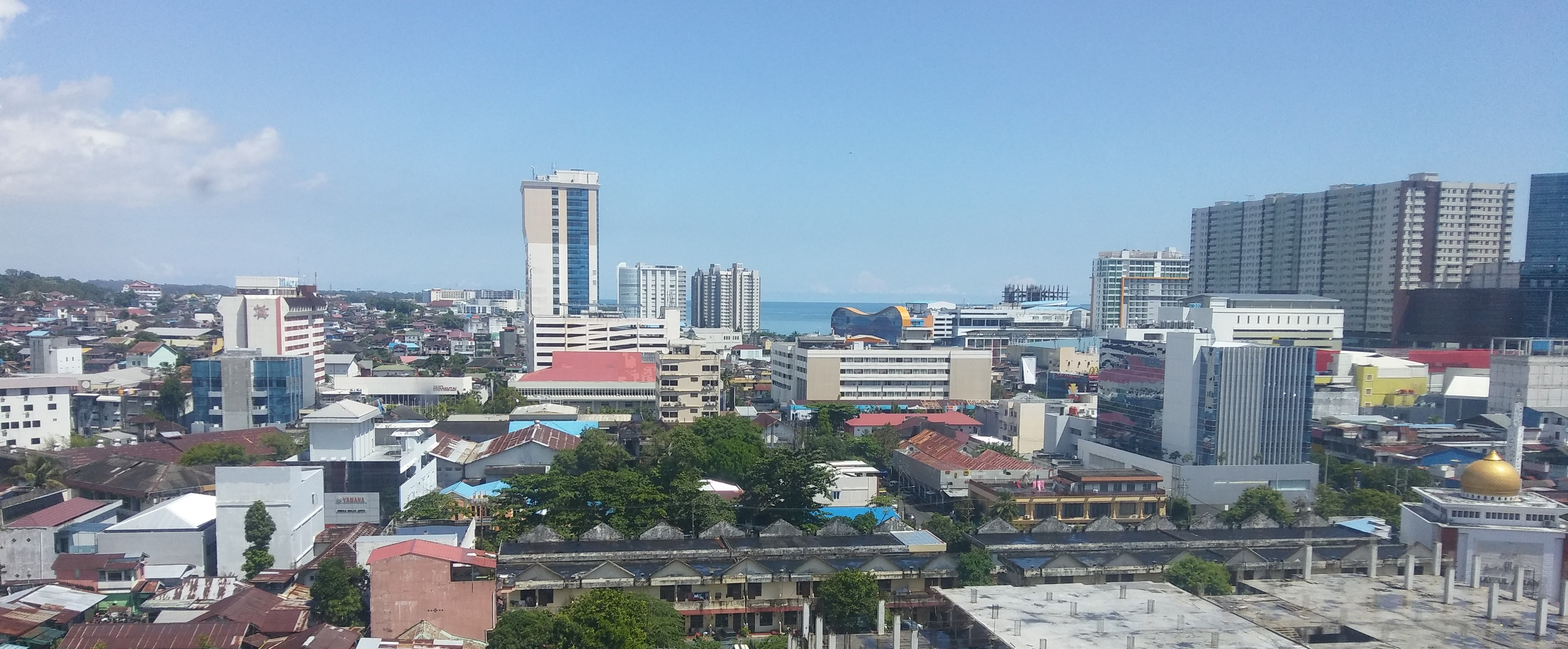 2018-12-04 Balikpapan